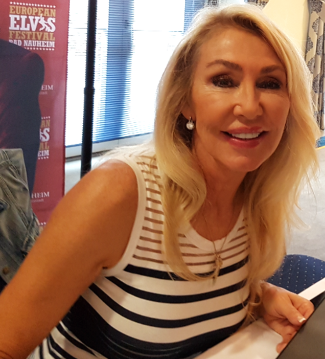 Linda Thompson at the European Elvis Festival in Bad Nauheim, 2019